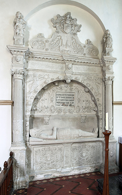 Parish Church of St Candida and Holy Cross, Whitchurch Canonicorum, Dorset: Wall tomb and monument of Sir John Jefferey of Catherston, who died in 1611. MP for Southampton in 1604[1]. His wife was Barbara, surname unknown, whose arms are shown five fusils in bend (Hele?) impaled by Jefferey